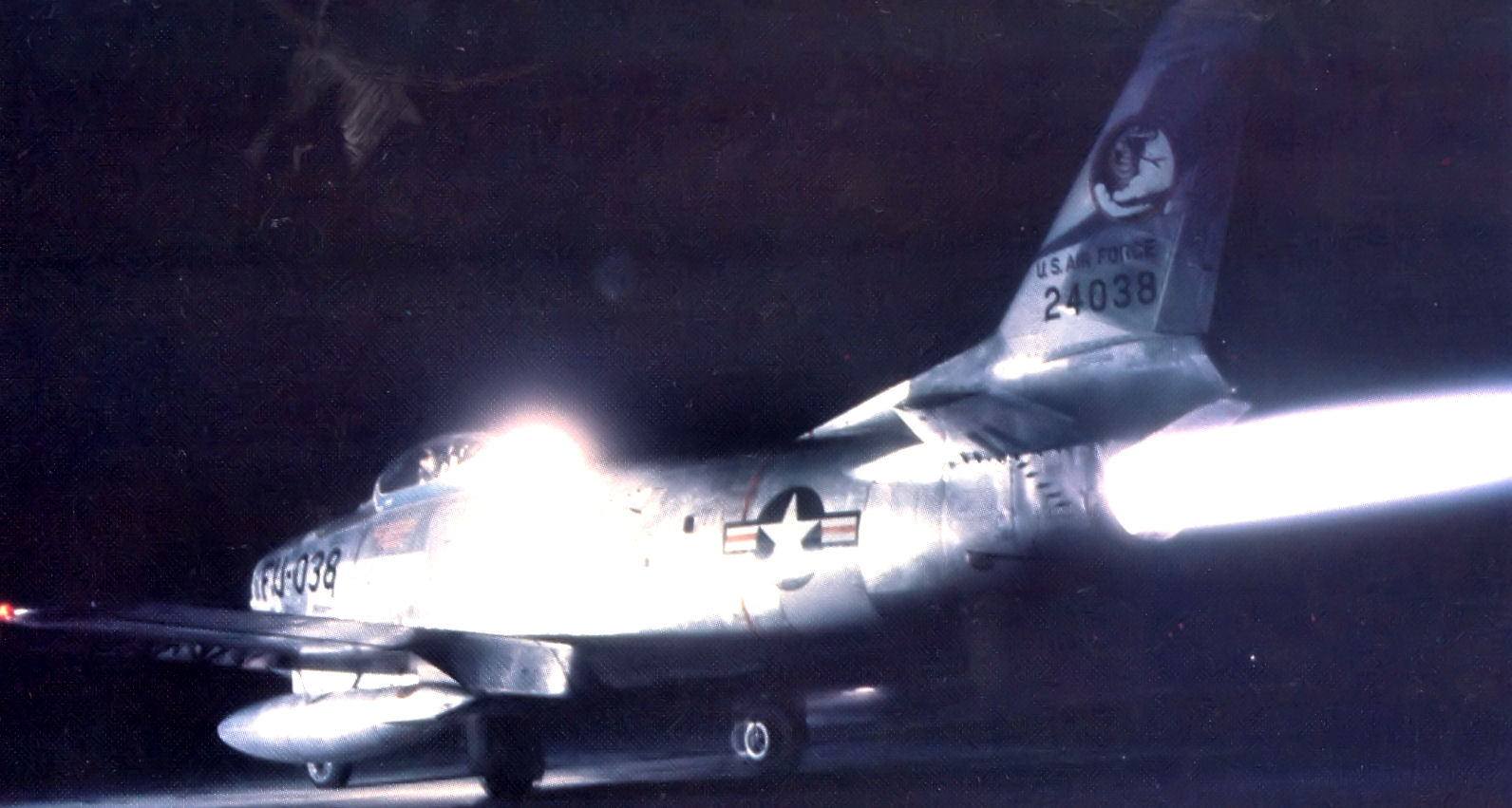 39th Fighter-Interceptor Squadron F-86D 52-4038 Yokota Air Base, 1955